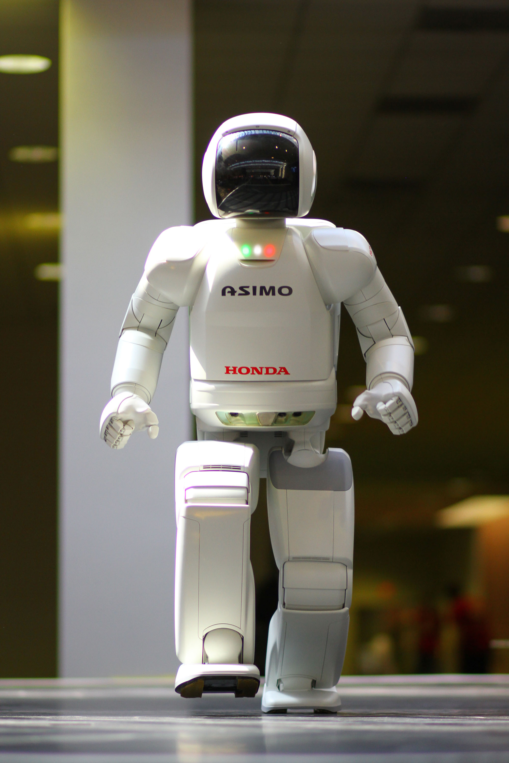 Asimo at a Honda factory. This humanoid robot was created by Honda Motor Co. as a part of the research project Advanced Step in Innovative MObility and was inducted into the Robot Hall of Fame in Pittsburgh in 2004 as the first humanoid droid able to walk dynamically.